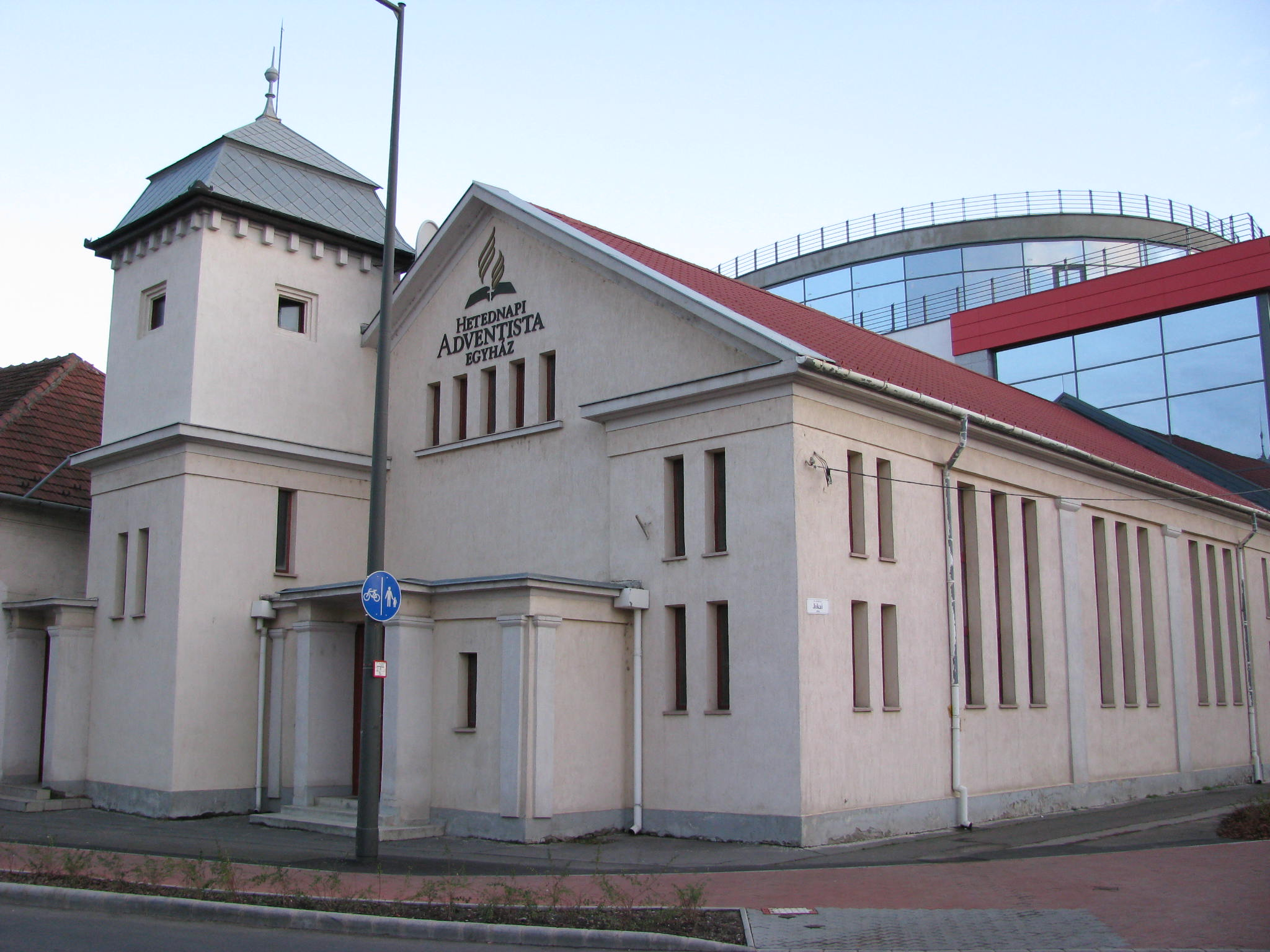 The aventist church in Békéscsaba, Hungary